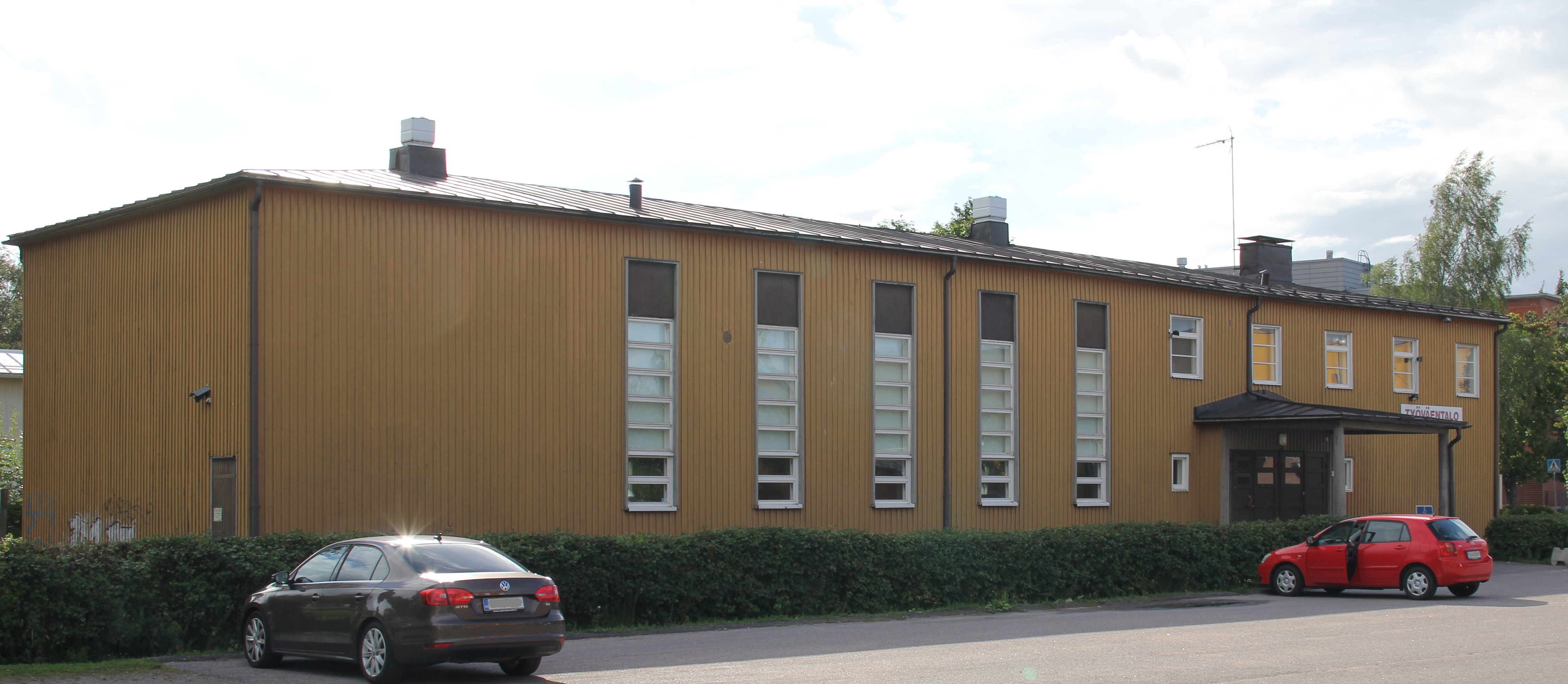 Malmi labour movement community building, Malmi, Helsinki, Finland. - Seen from Kirkonkyläntie, west.